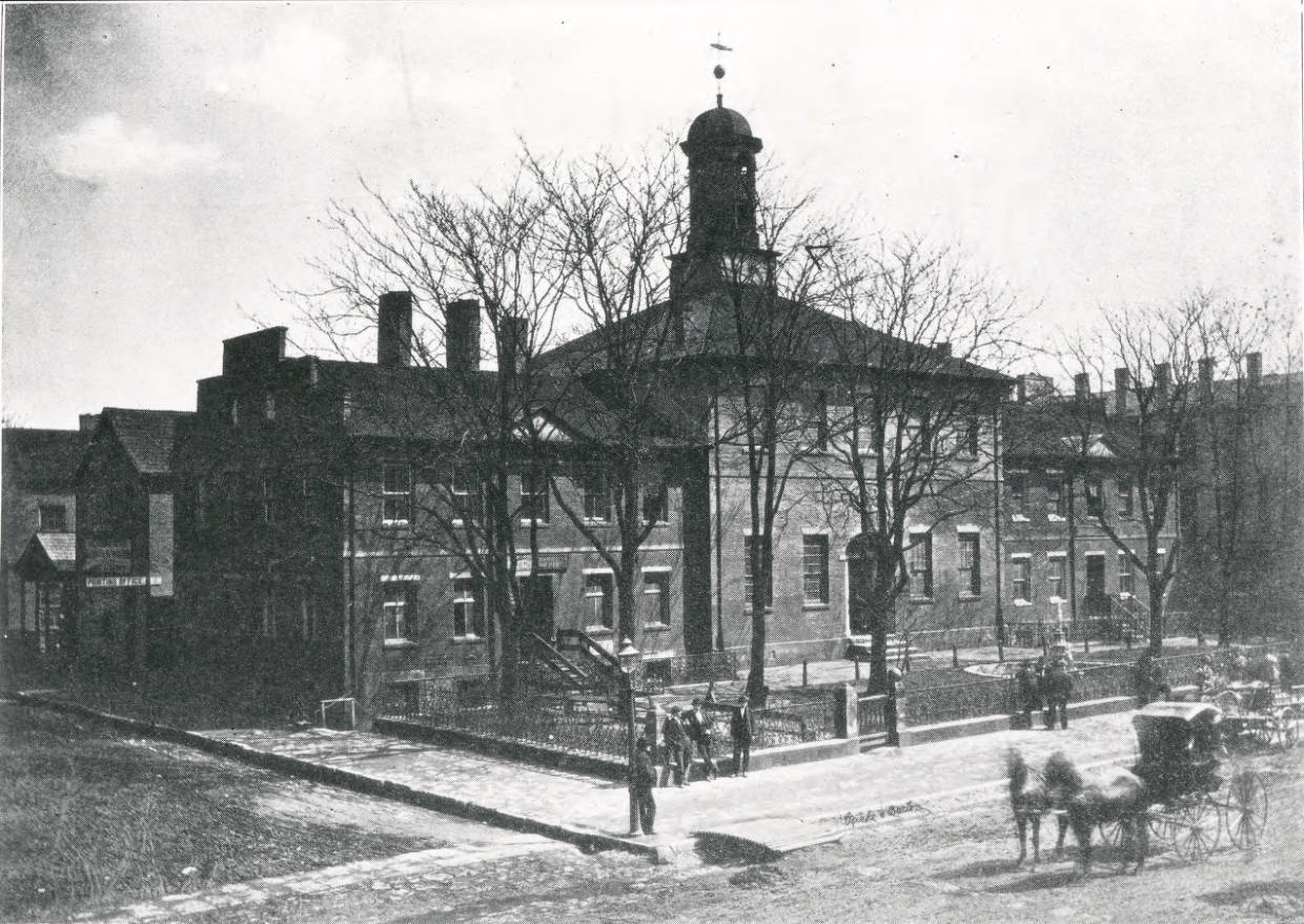 From 1810 to 1812, Zanesville, Ohio was the state capitol. In 1809 this building was erected. After the capitol was moved back to Chillicothe, Ohio, this building served as the county courthouse of Muskingum County, Ohio until 1874, when the present courthouse was built.